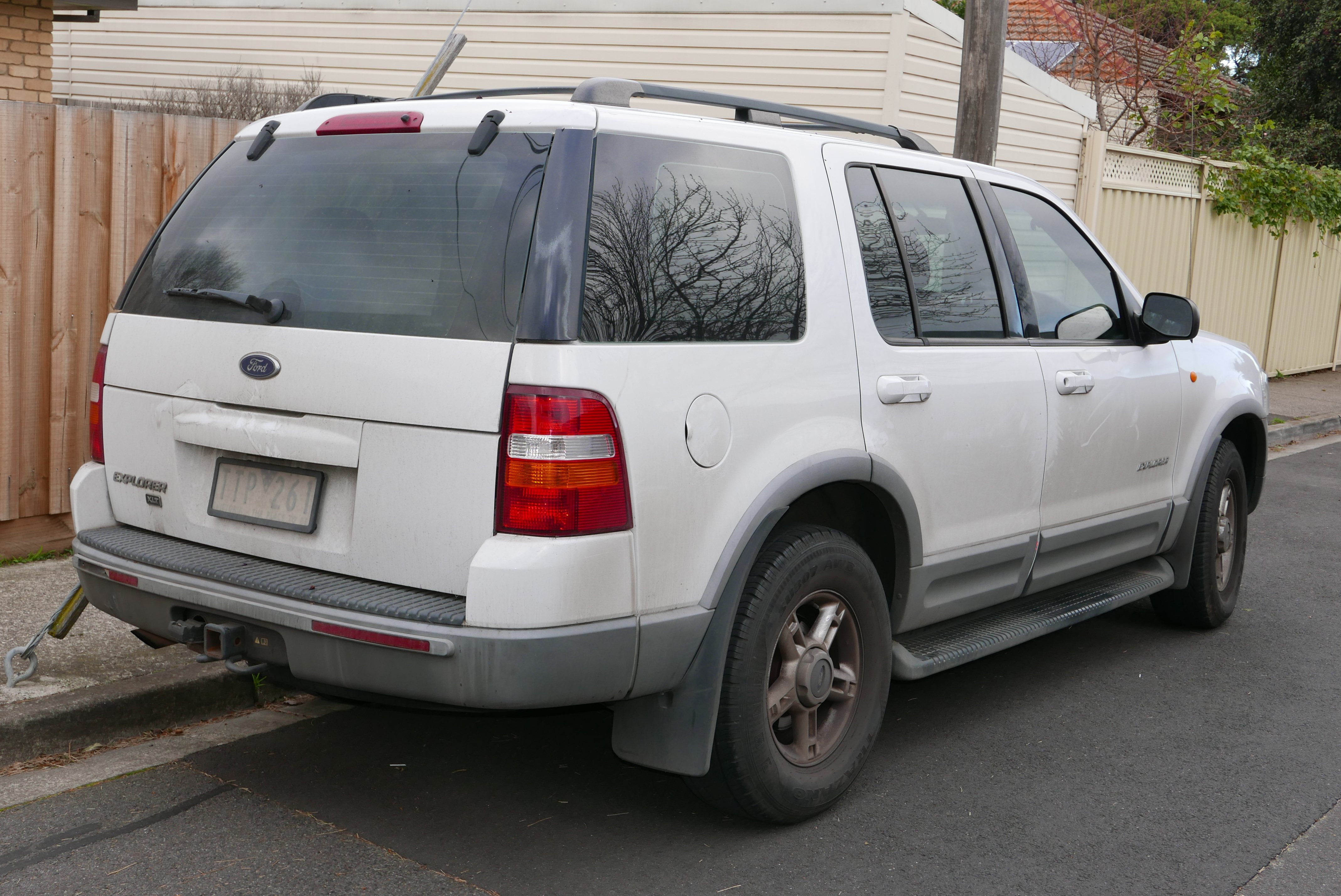 2002 Ford Explorer (UT) XLT wagon. Photographed in Fairfield, Victoria, Australia. Vehicle registration enquiry resultsJurisdictionVictoriaRegistrationTTP261Chassis code1FMDU73E42ZC79842Engine code2ZC79842Compliance date2002-08Year of manufacture2002